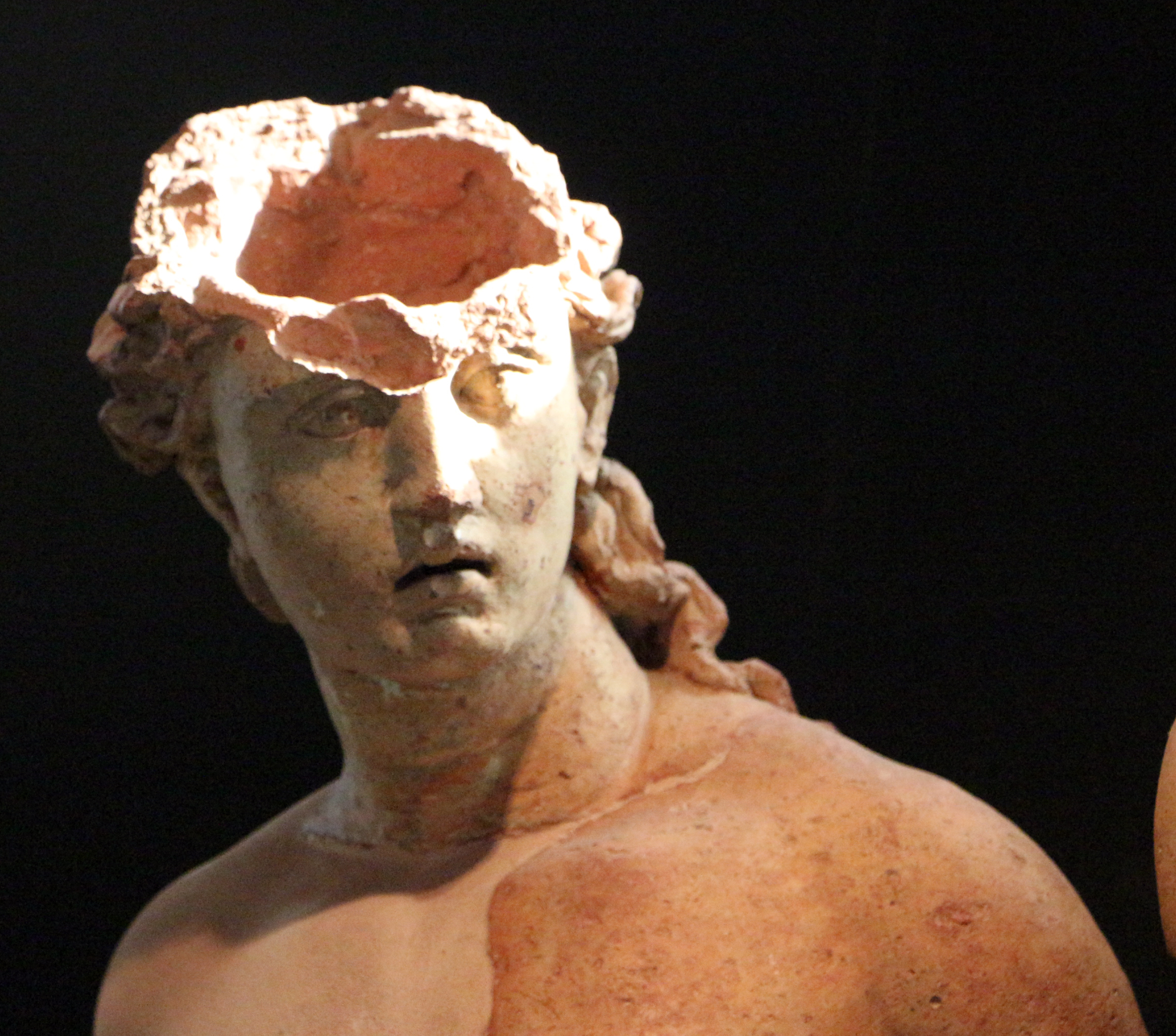 Etruscan sculptures in the Museo archeologico nazionale (Florence)